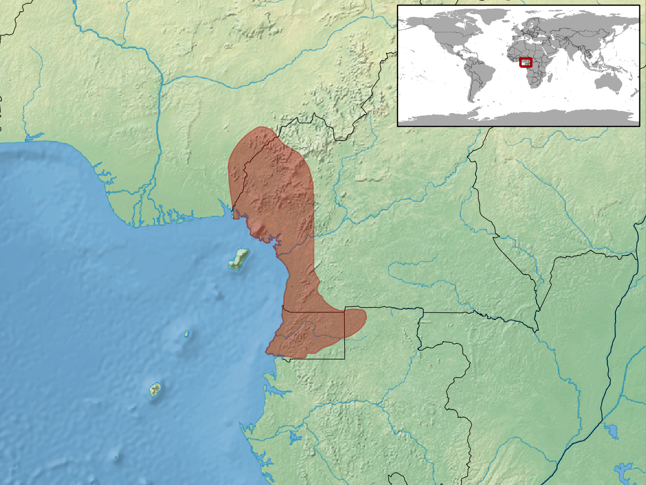 geographic distribution of Cnemaspis koehleri (Native: Cameroon; Equatorial Guinea; Gabon; Nigeria)